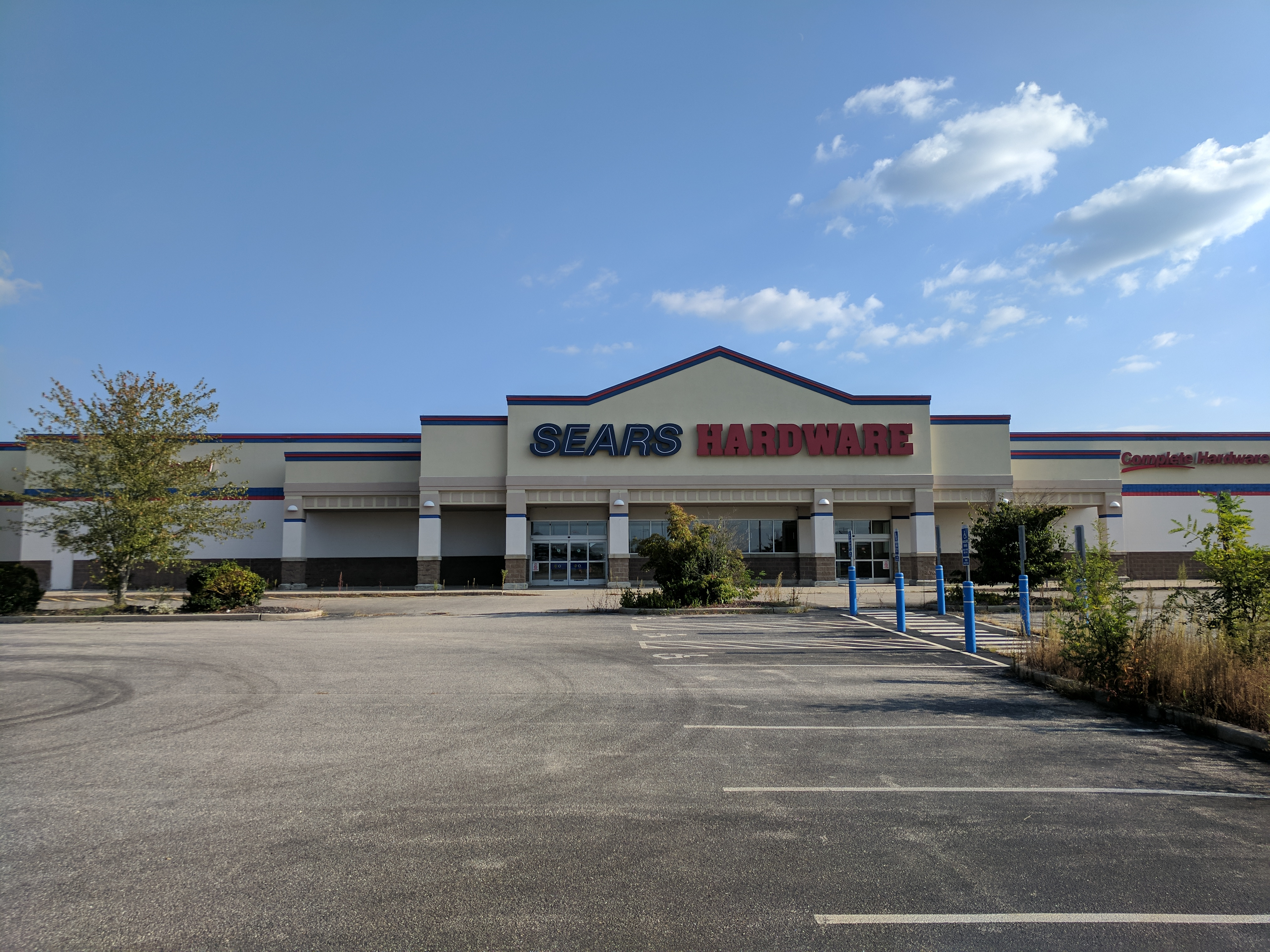 A closed Sears Hardware in Windham, Connecticut